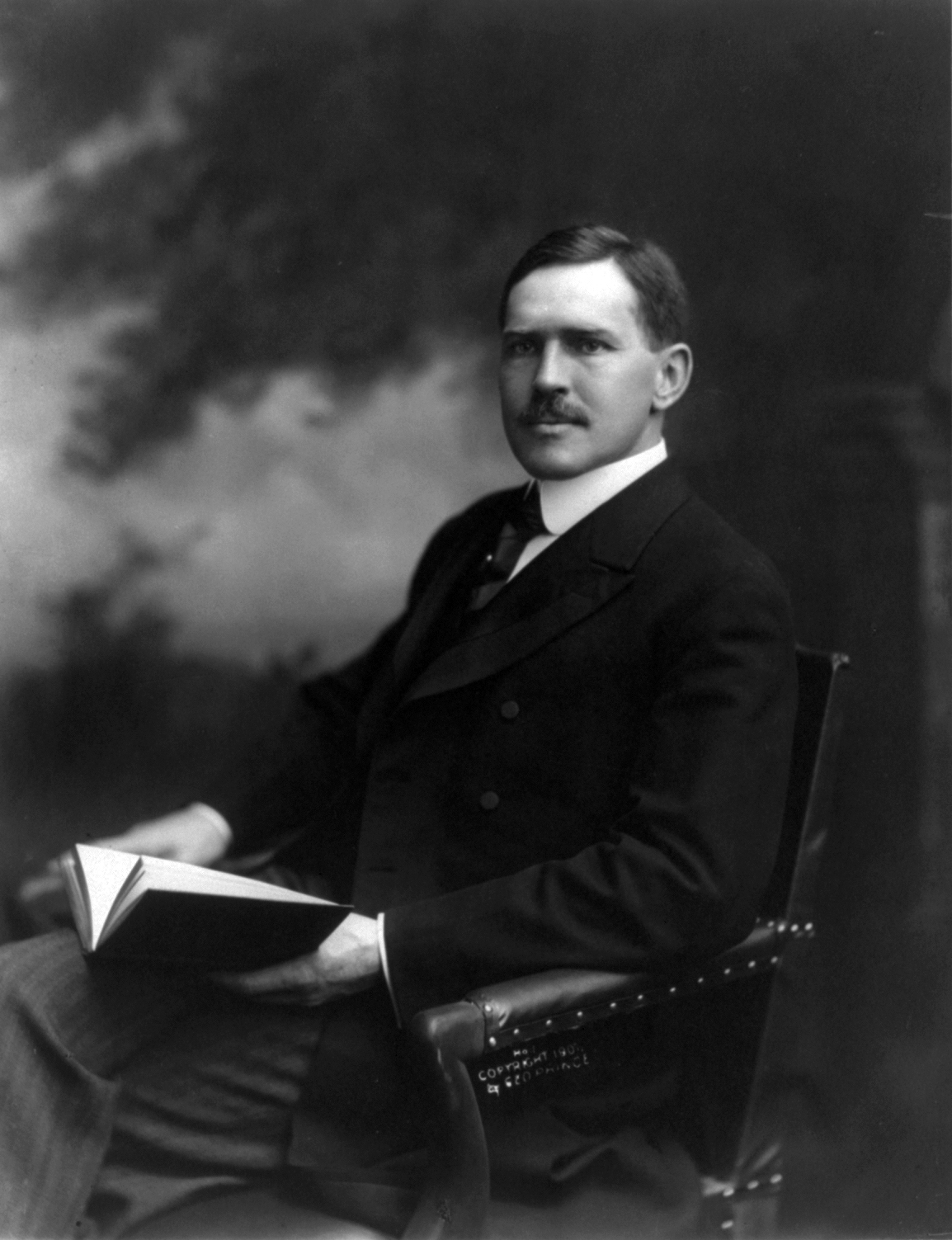 James Rudolph Garfield, seated, facing left, holding book